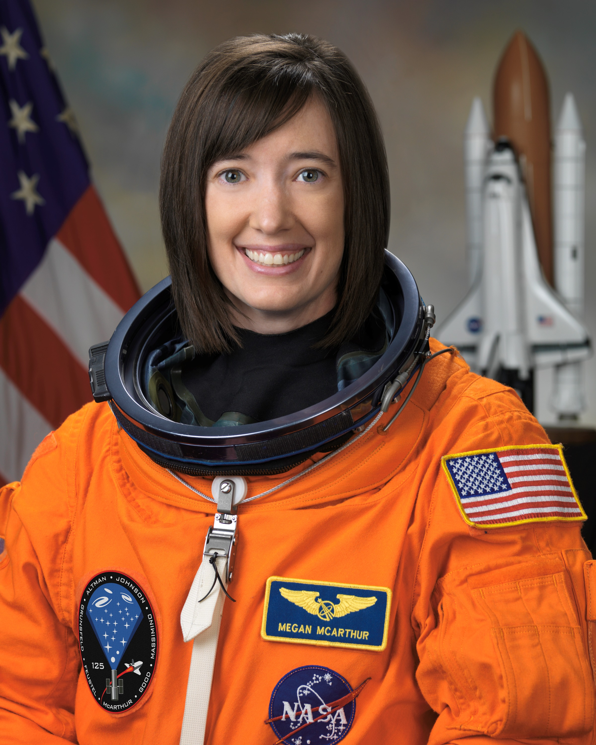 Official portrait image of NASA astronaut K. Megan McArthur.